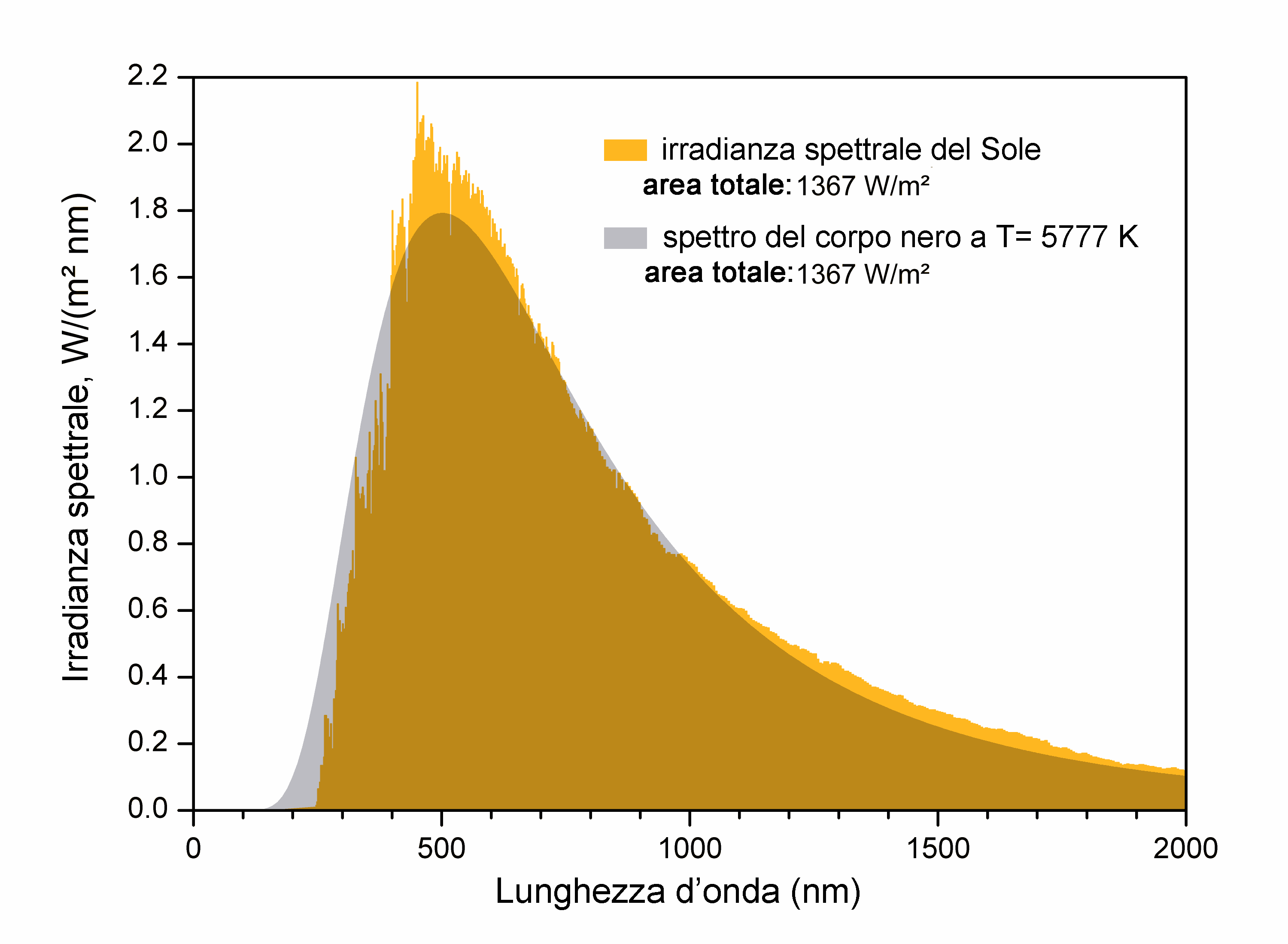 Italian translation of image Image:EffectiveTemperature 300dpi e.png